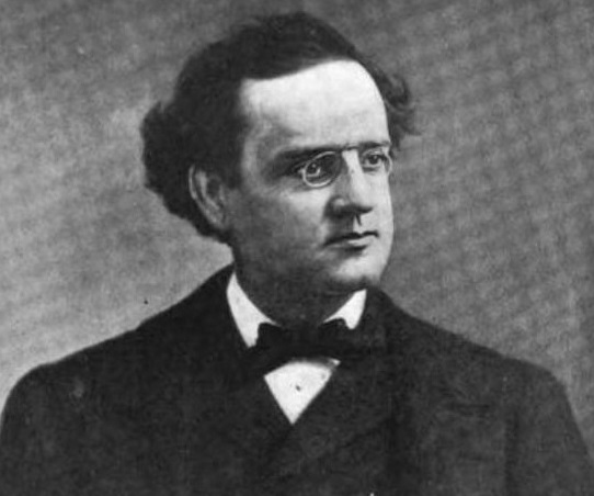 Thomas M. Waller (Connecticut Governor)